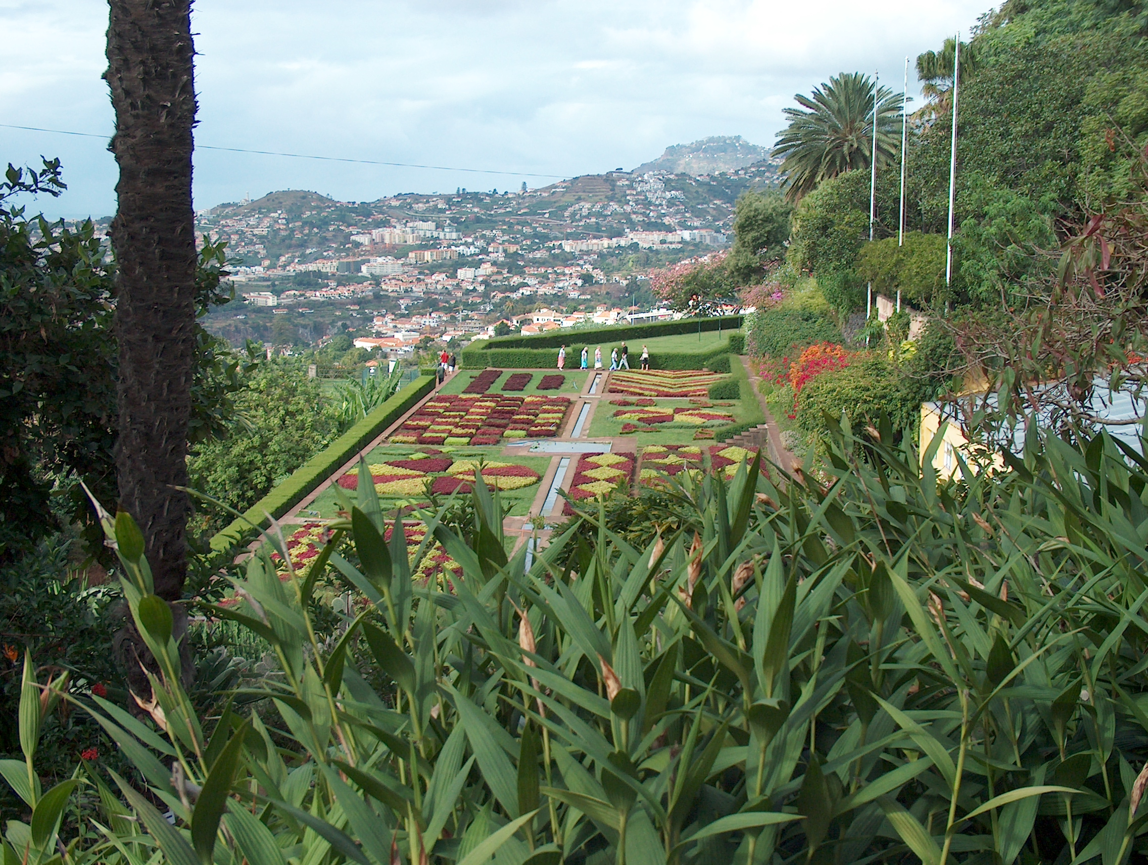 Jardim Botânico da Madeira. Sobralia macrantha in the foreground. Funchal in the background.